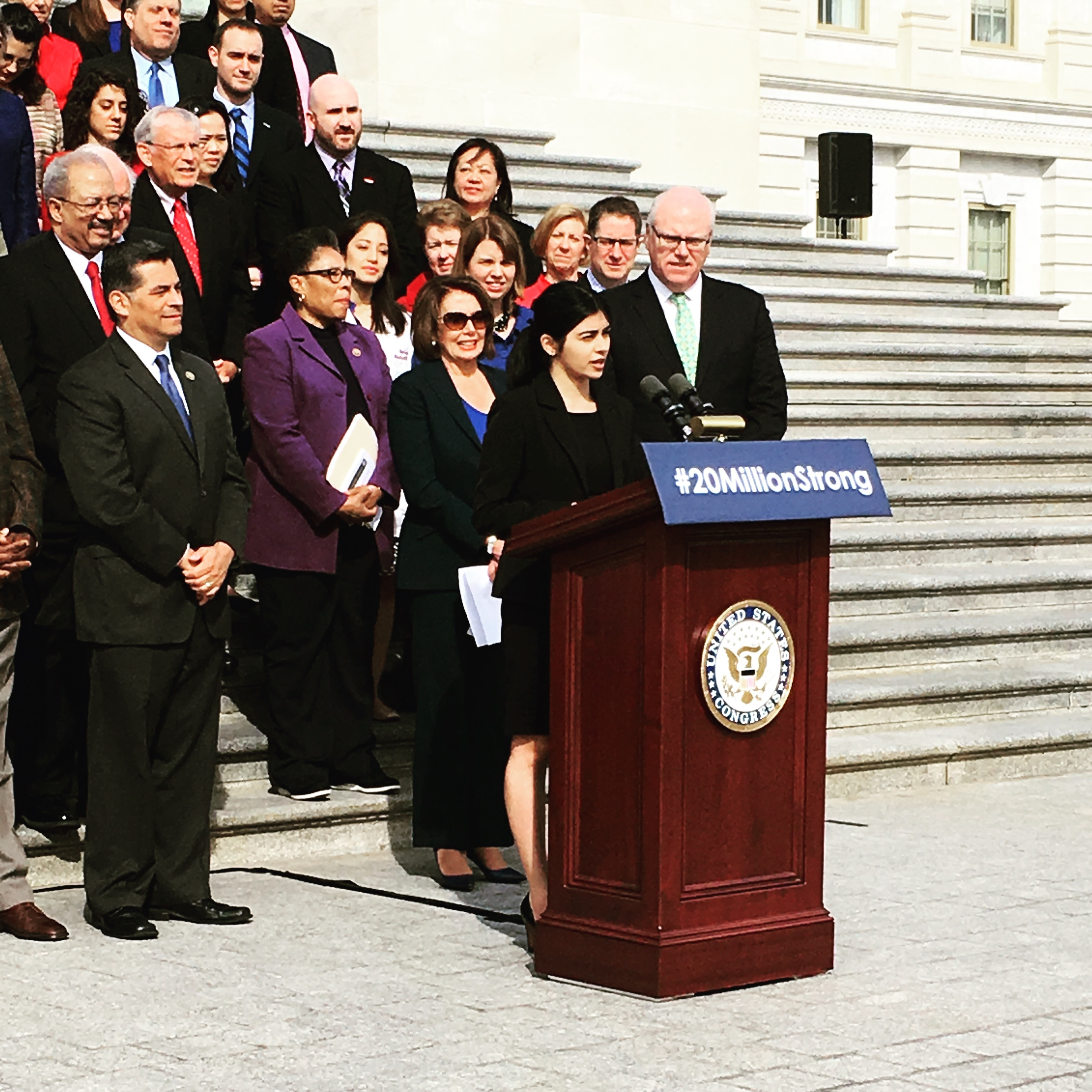 Congressional Democrats celebrating the 6th anniversary of the Affordable Care Act in March 2016 on the steps of the U.S. Capitol.